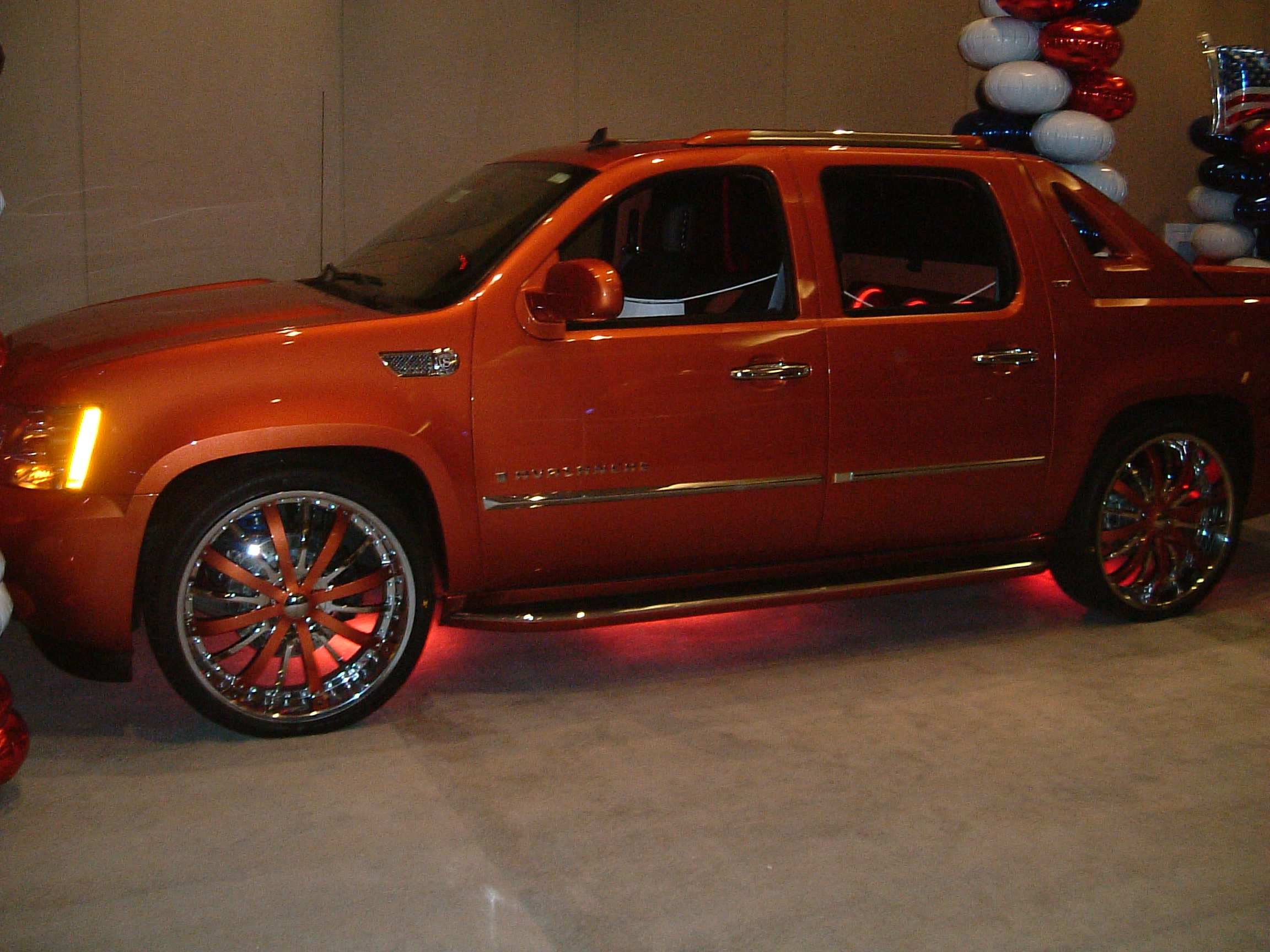 Modified chevy avalanche.